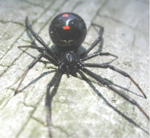 Black widow, upper front view. Hemingway, South Carolina